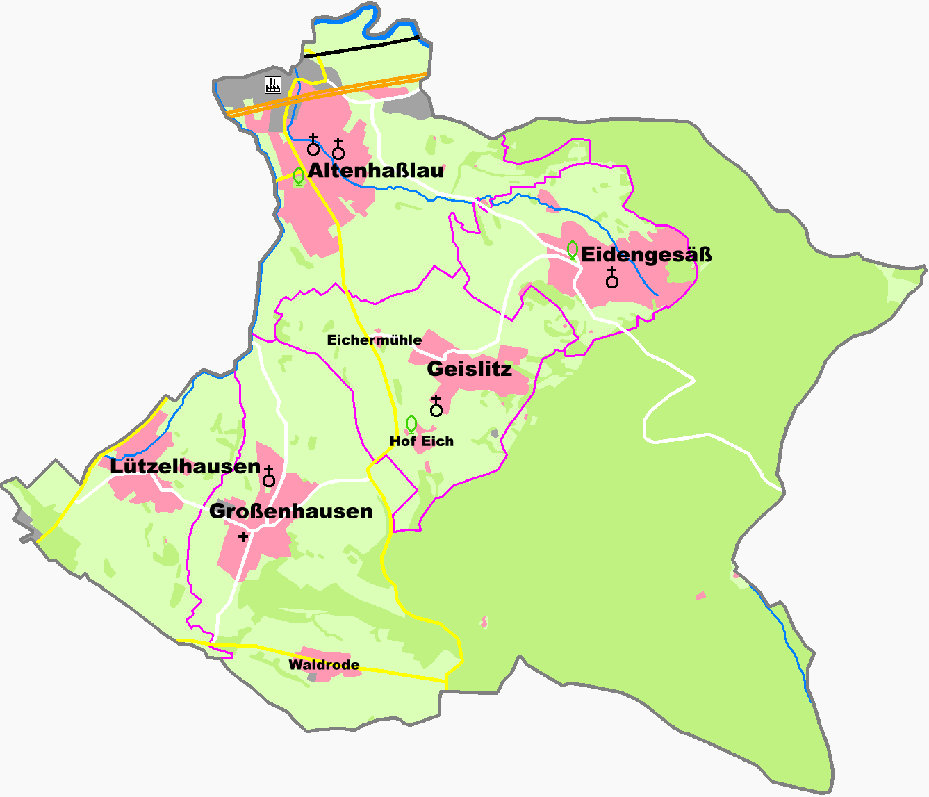 Municipal area and districts of Linsengericht Grassland, Meadow Settlement area Industrial area Forest Body of water Municipal border District border Freeway Main street Side street Railway Industrial park Church Chapel Natural monument